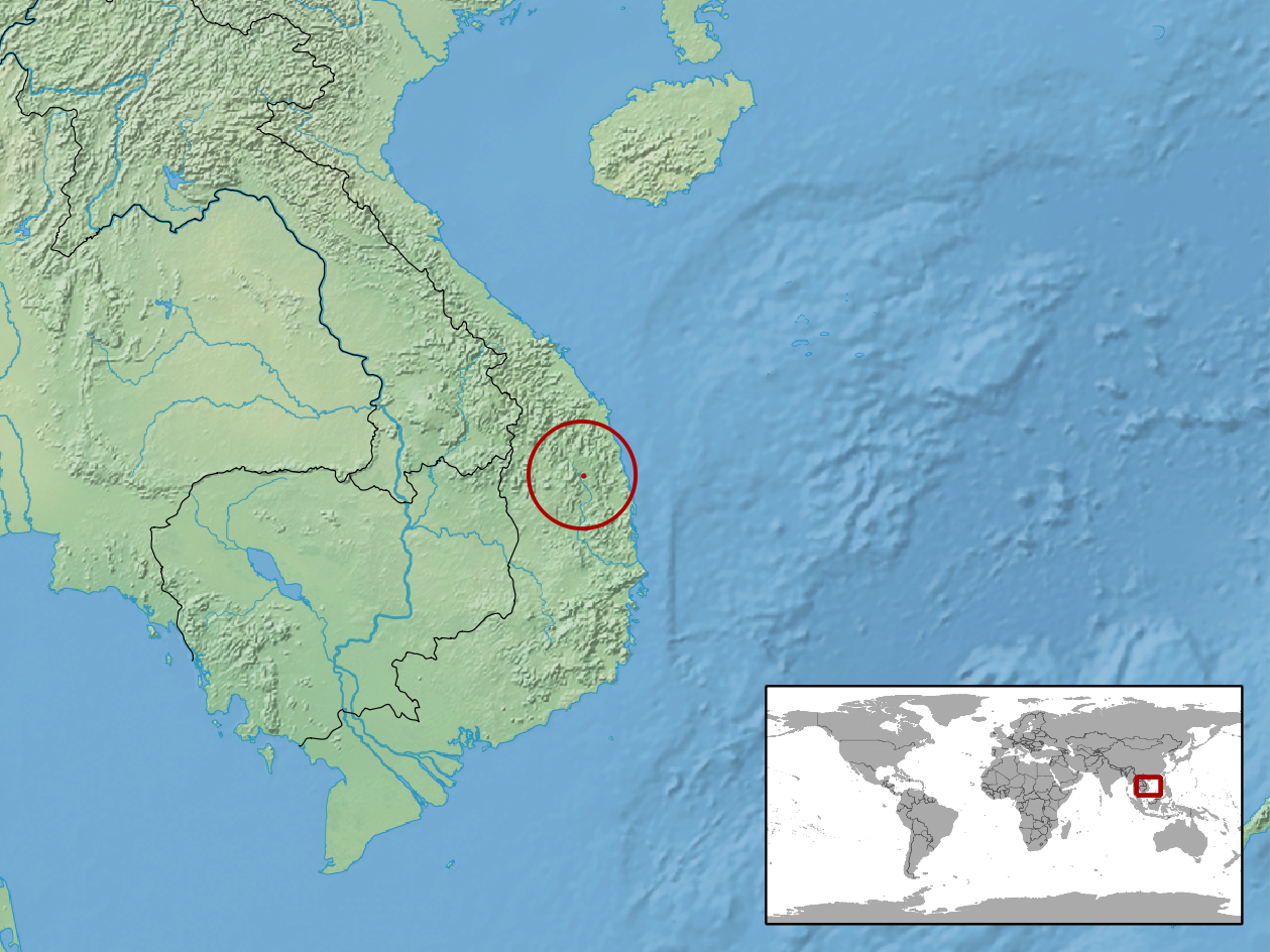 geographic distribution of Calamaria gialaiensis (Native: Viet Nam)